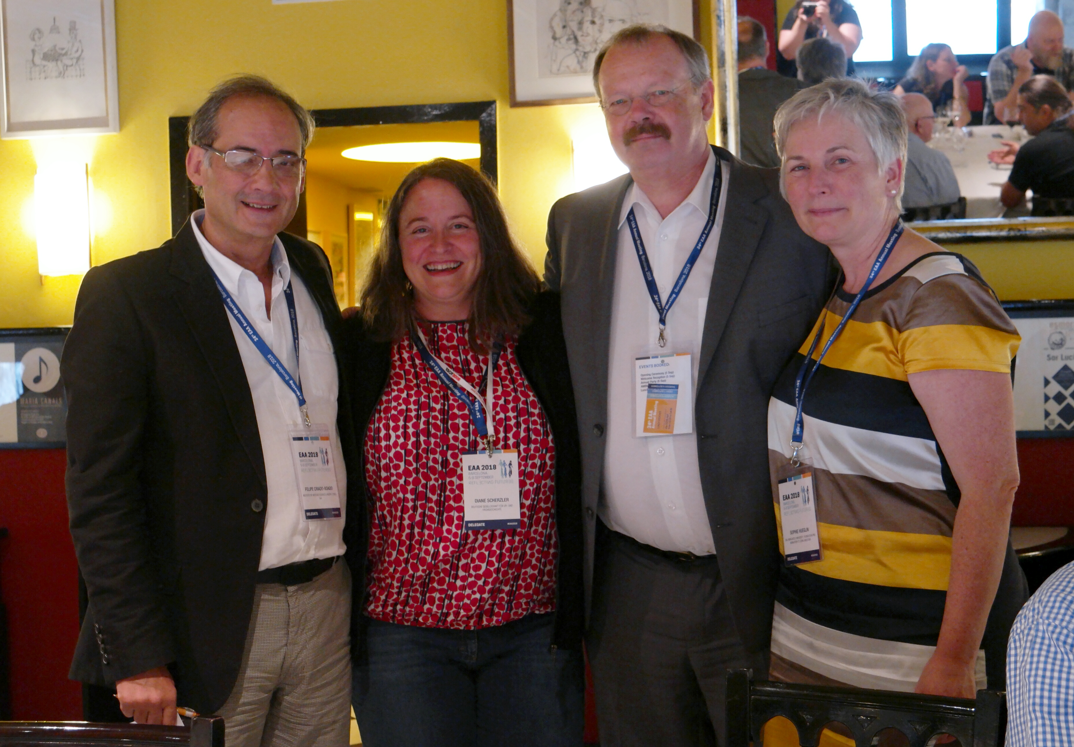 Signing a Memorandum of Understanding between the European Association of Archaeologists (EAA) and the German Society for Pre- and Protohistory (DGUF) at Sept. 5th, 2018, in Barcelona (Spain). The picture shows (from left to right) Felipe Criado-Boado (president of EAA), Diane Scherzler (president of DGUF), Frank Siegmund (vice president of DGUF) und Sophie Hüglin (vice president of EAA).